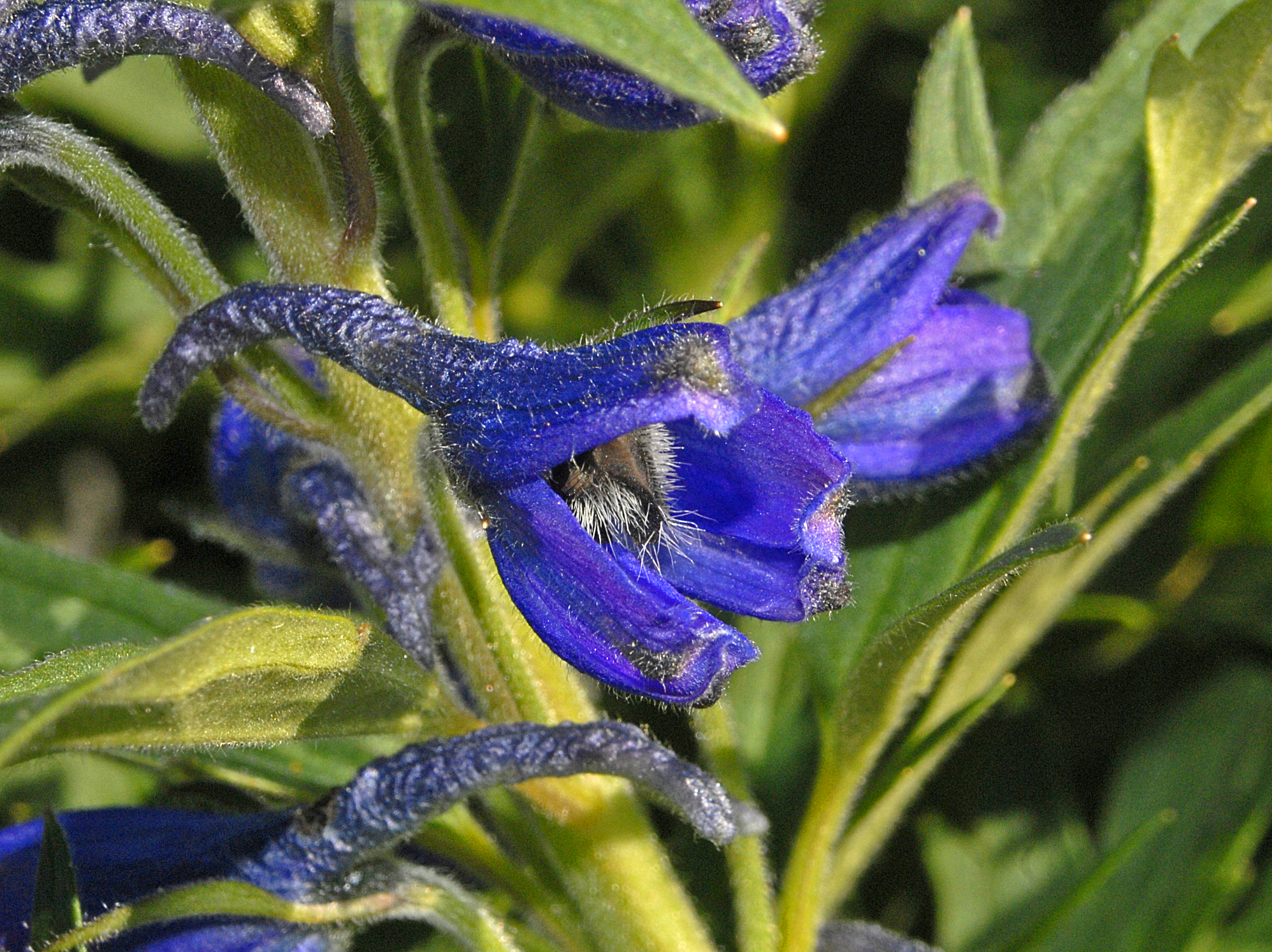 Flower of Delphinium brunonianum at the Giardino Botanico Alpino Chanousia